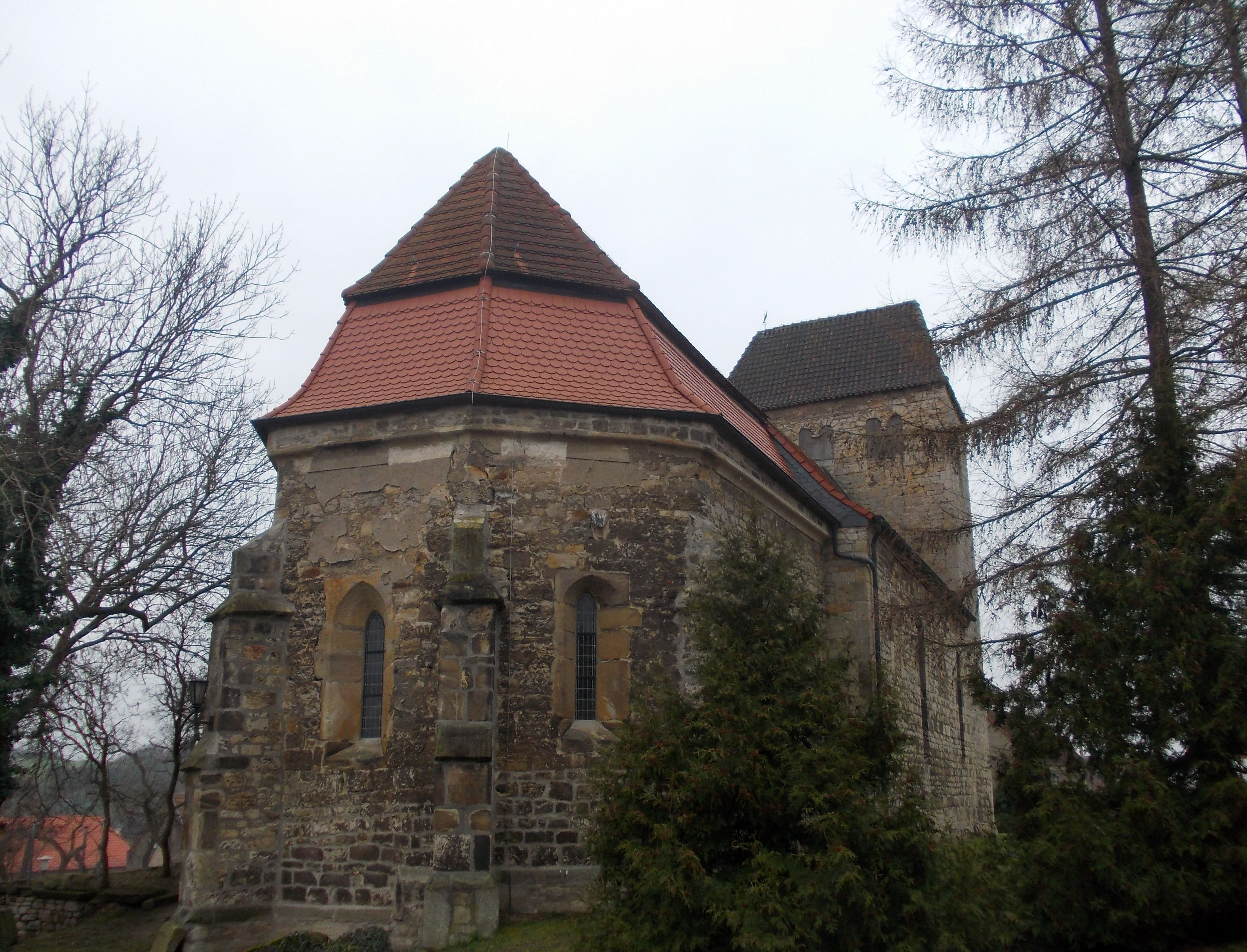 St. Wenceslaus Church, Niedereichstädt (Mücheln, district: Saalekreis, Saxony-Anhalt)